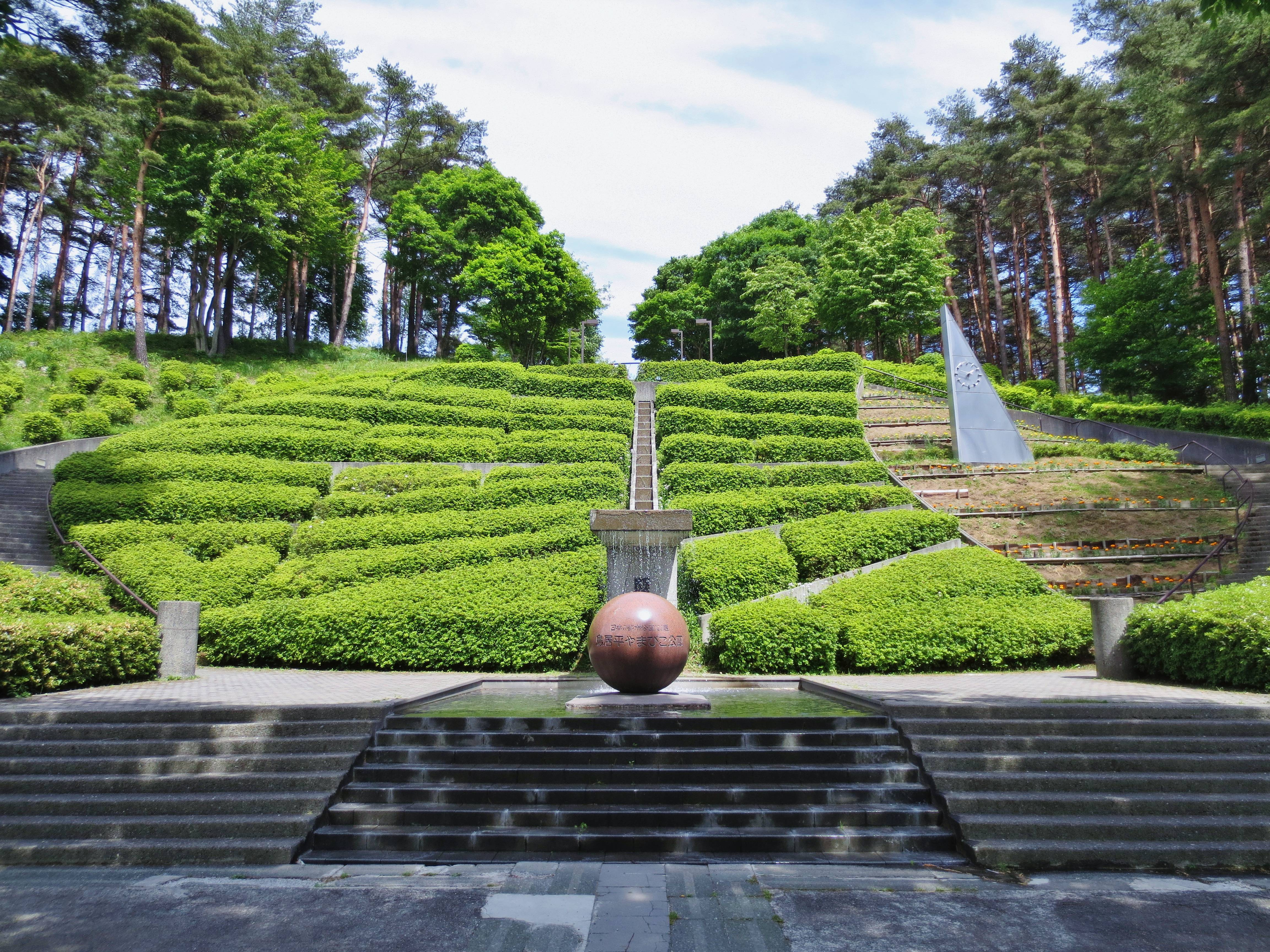 Toriidaira Yamabiko Park monument.